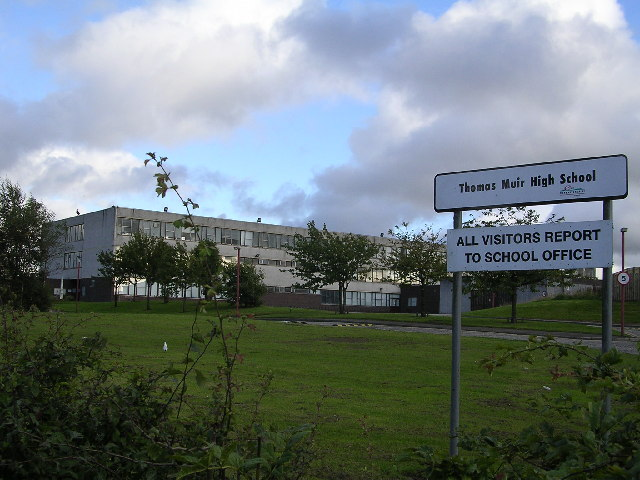 Thomas Muir High School. High School in Bishopbriggs. Named after Scottish mathematician Thomas Muir (1844-1934) (See 409570 and other images in NS6270 for up to date information, (April 2007), on this school site.)